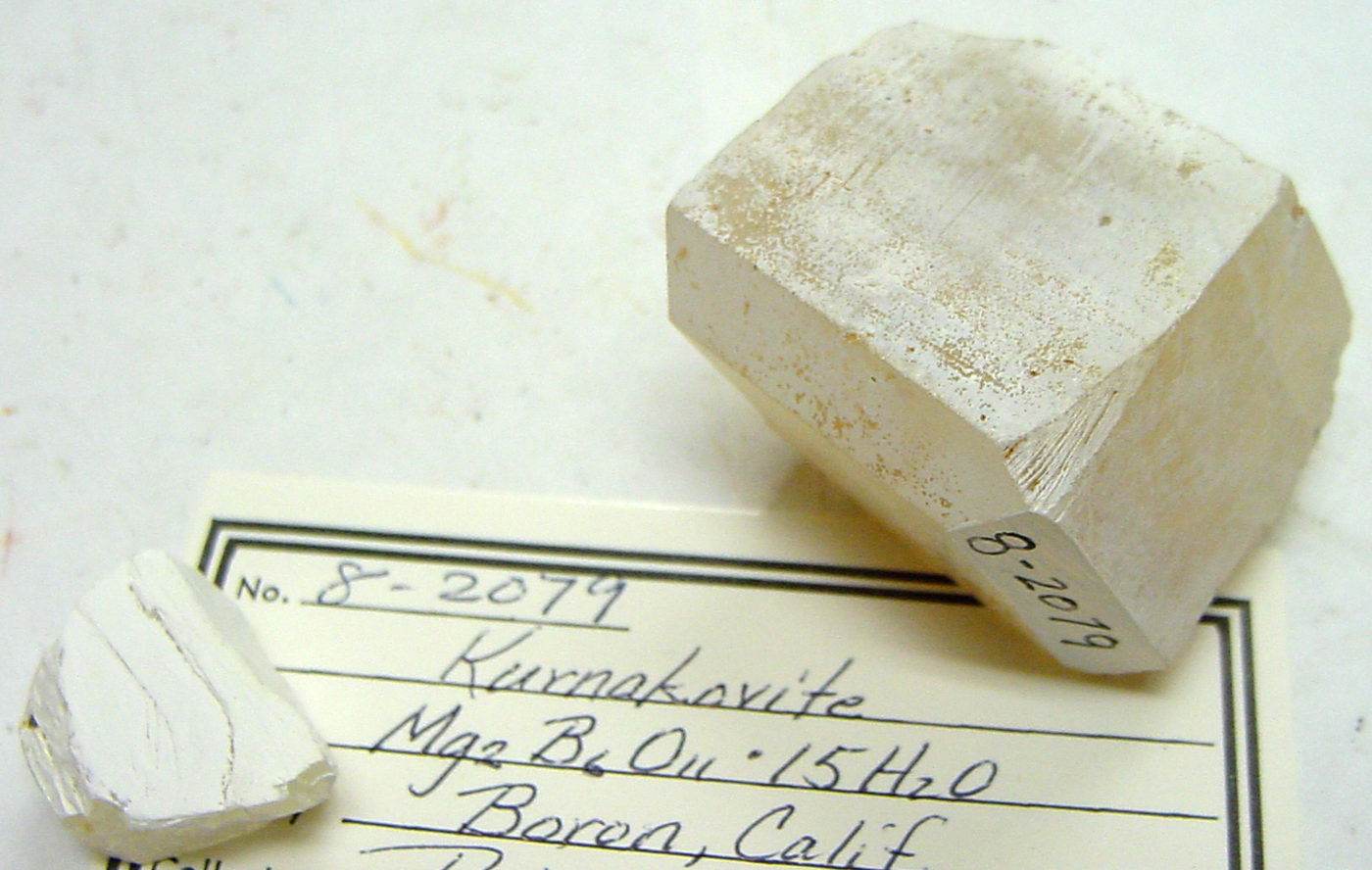 Kurnakovite, Boron, Calif. Collected by Robert Herod, 1988, from Boron, California. Mineral collection of Bringham Young University Department of Geology, Provo, Utah. Photograph by Andrew Silver. BYU index 8-2079, Mg_2B_6O_11 x 15H_2O.